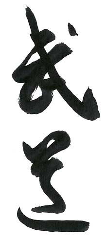 "Budo" shuji, brushed by Kondo Katsuyuki, Menkyo Kaiden, Daito ryu